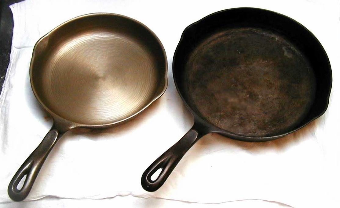 my own photo, freely released